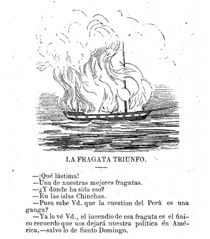 Gil Blas, periódico político satírico. N° 8, Año II; 21-02-1865. Pág. 03 Guerra Hispano sudamericana